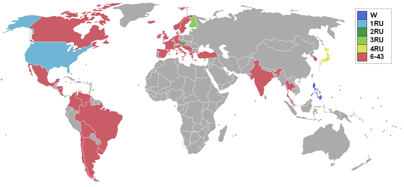 Miss International 1979 results map